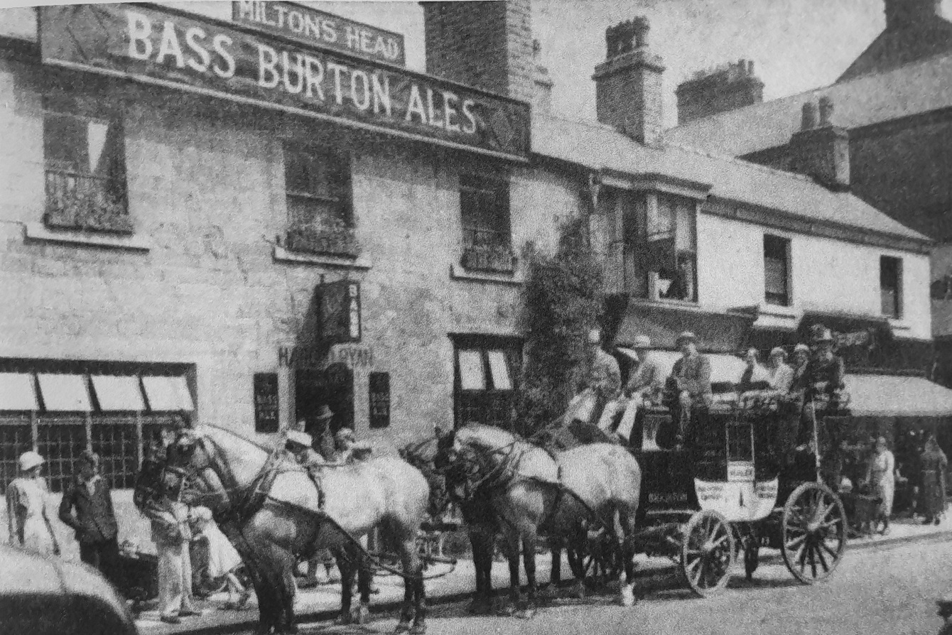 Miltons Head in Buxton 1930s